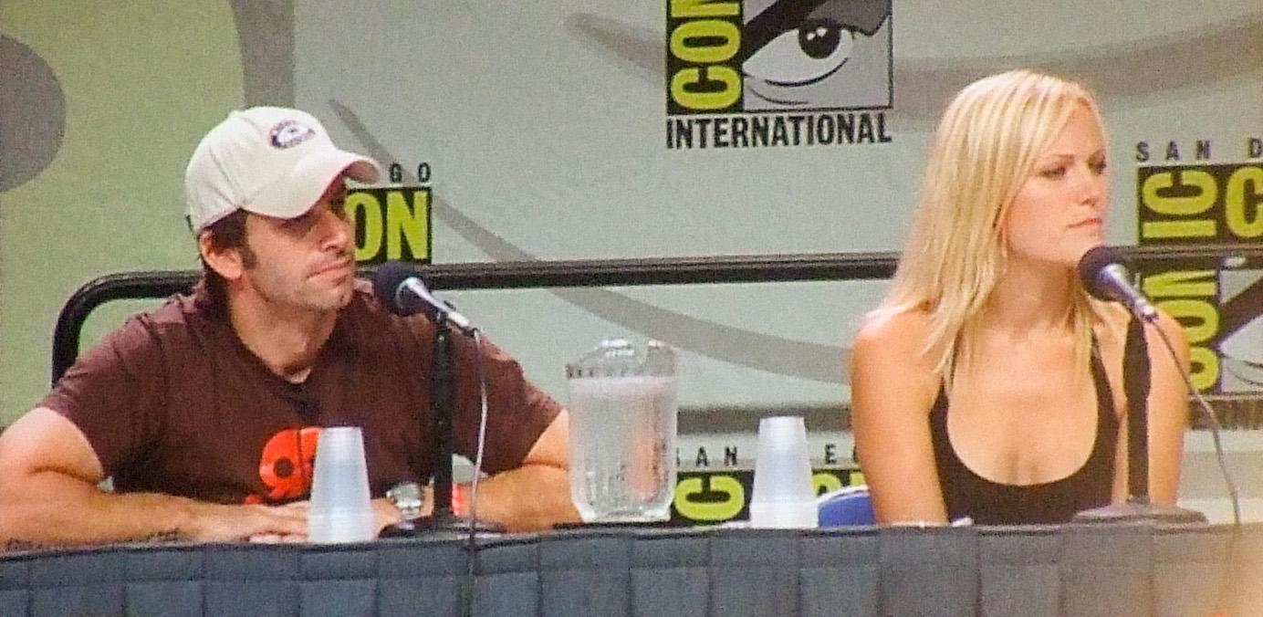 Zack Snyder and Malin Åkerman at Comic Con